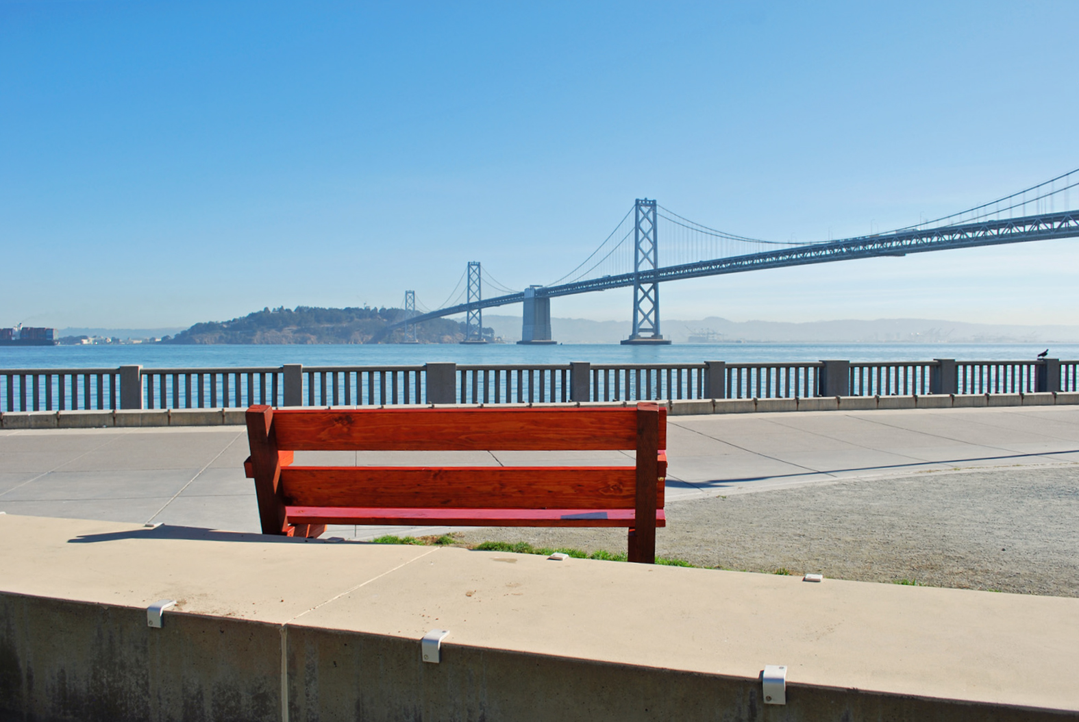 This photo shows Yerba Buena Island and the San Francisco - Oakland Bay Bridge as seen from the Mano Seca Bench installed in Rincon Park by Cupid's Span. The Mano Seca Group installs benches throughout the west at scenic areas that celebrate our wonderful and varied nation. For more information, visit Thank you for viewing, but you also need to sit here!